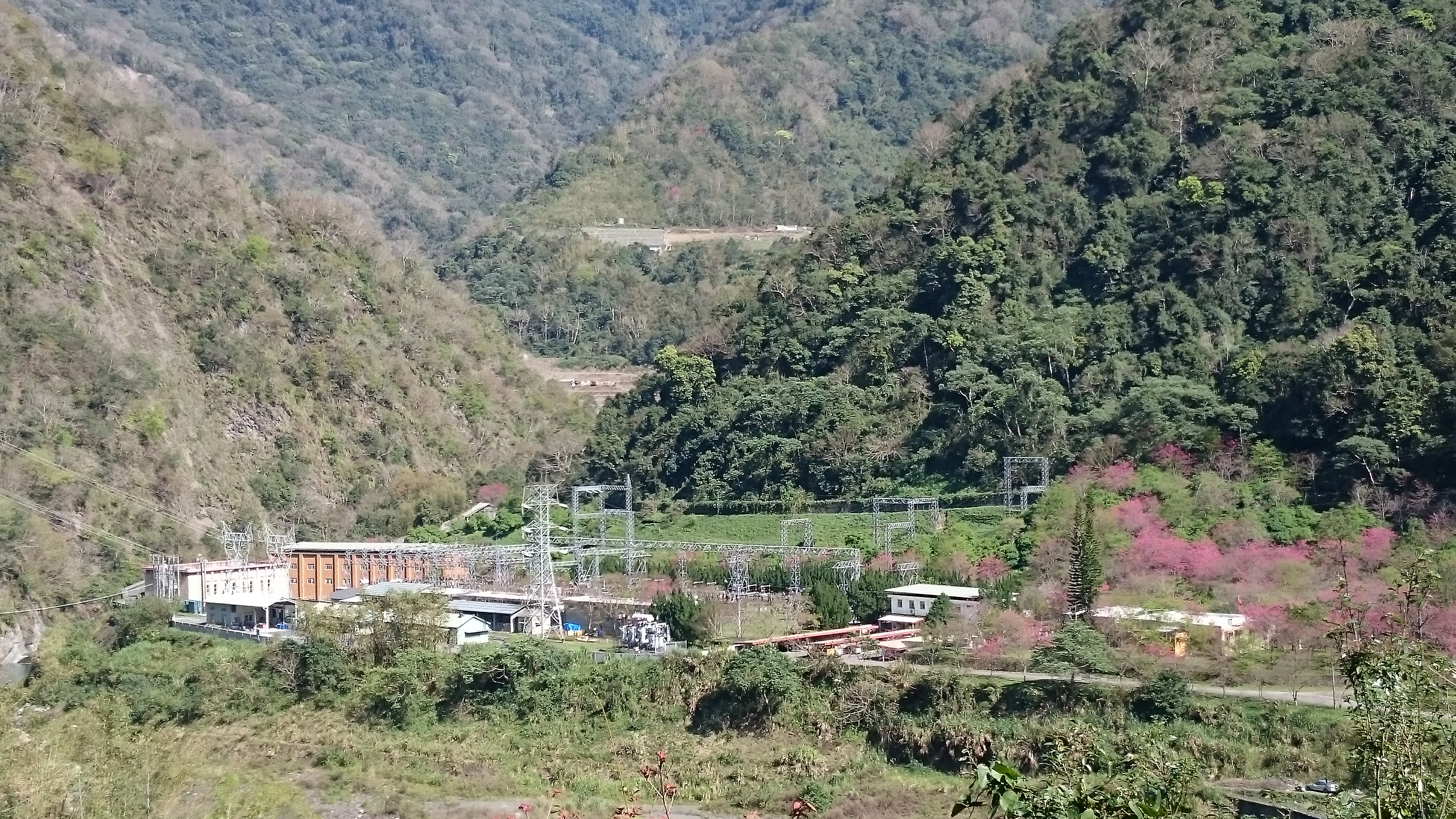 Wan Da power plants panorama